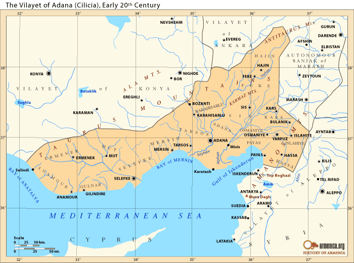 The Vilayet of Adana (Cilicia), early 20th century